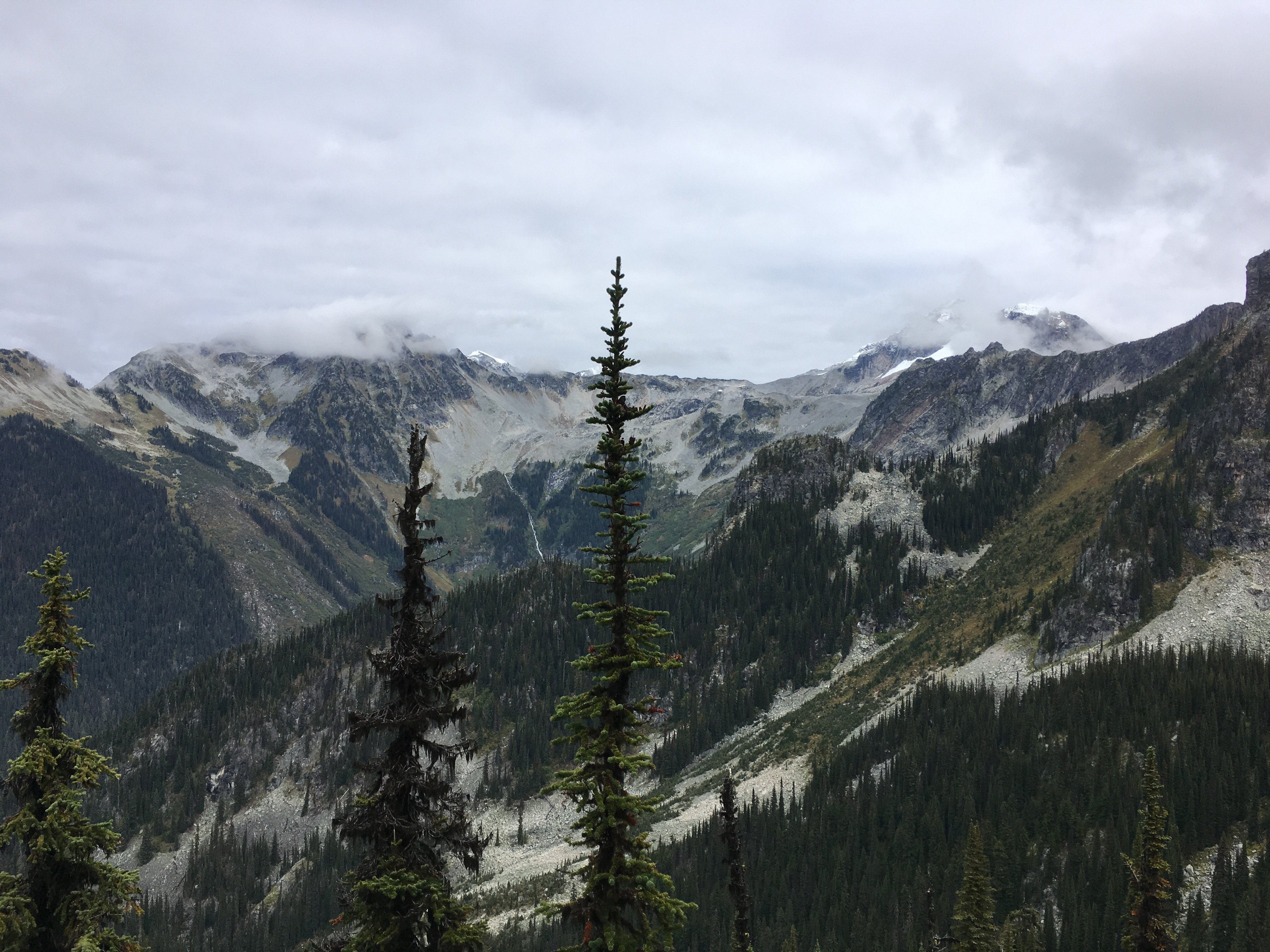 Alpine valley in the Clachnacudainn Range in the Selkirk Mountains, with Mt. Dickey (left) and Mt. Coursier (right), in Mount Revelstoke National Park, British Columbia, Canada. View from Eva Lake.